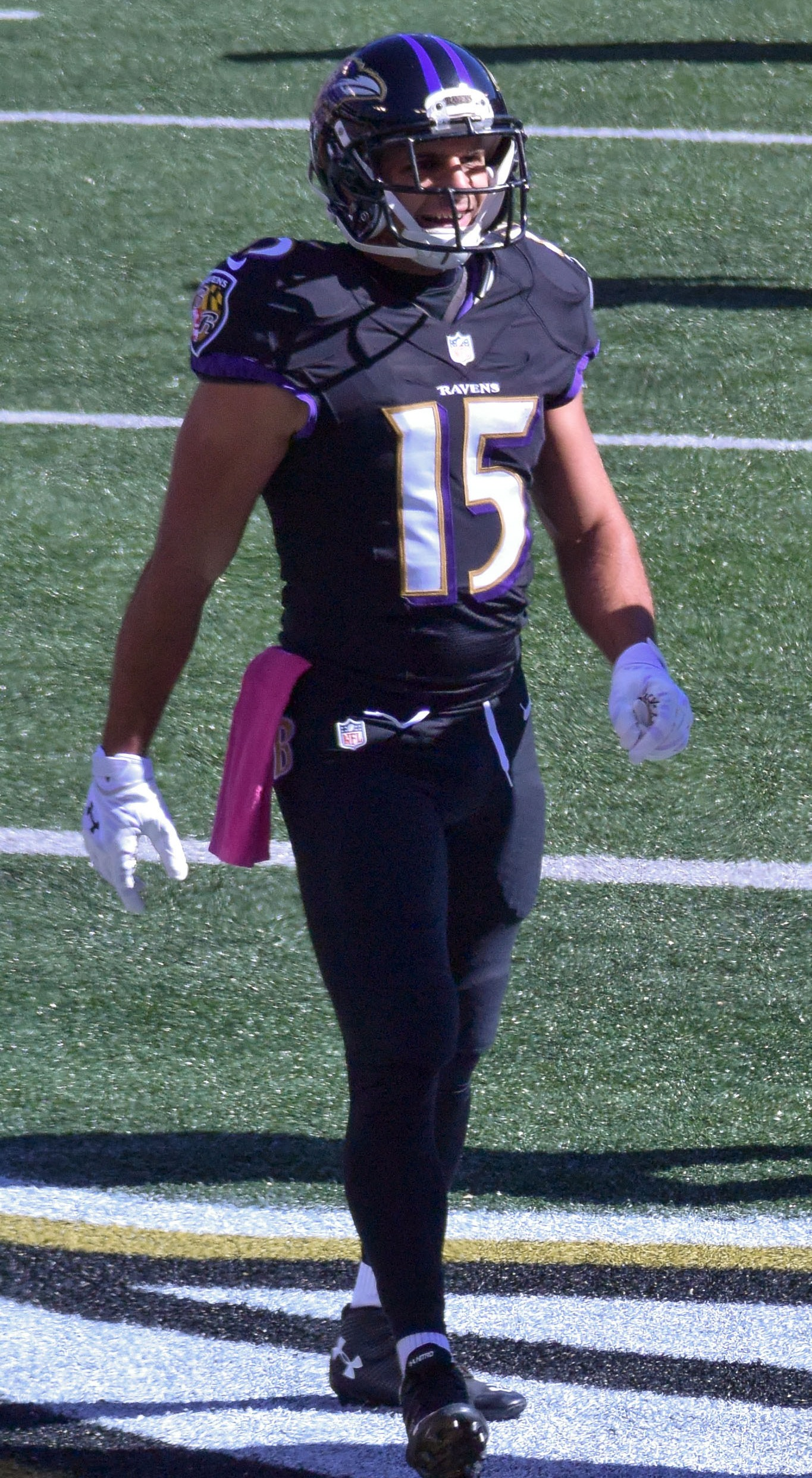 Baltimore Ravens wide receiver, Michael Campanaro, in a game against the Atlanta Falcons on October 19, 2014